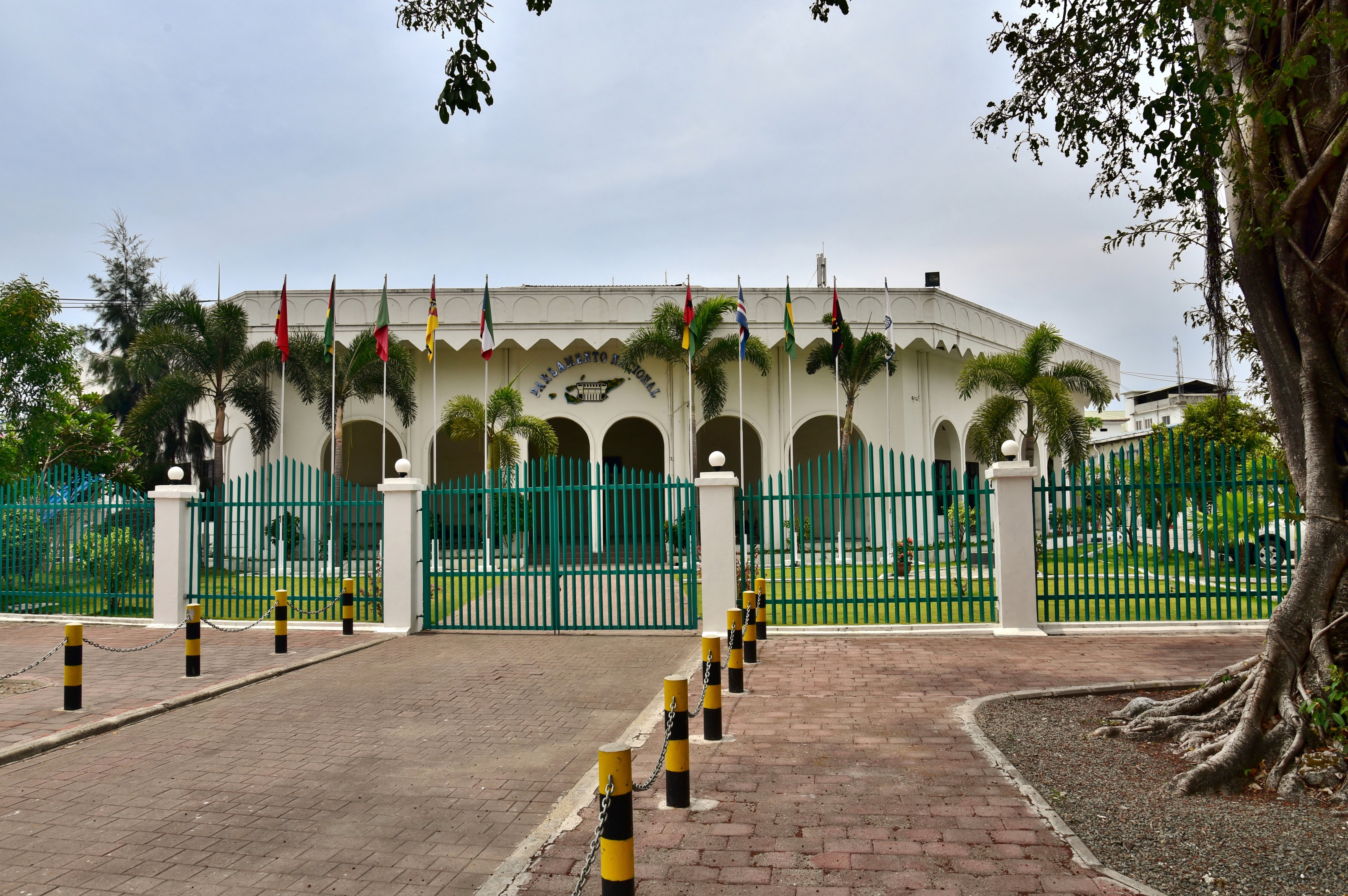 View of the National Parliament building, Dili, East Timor